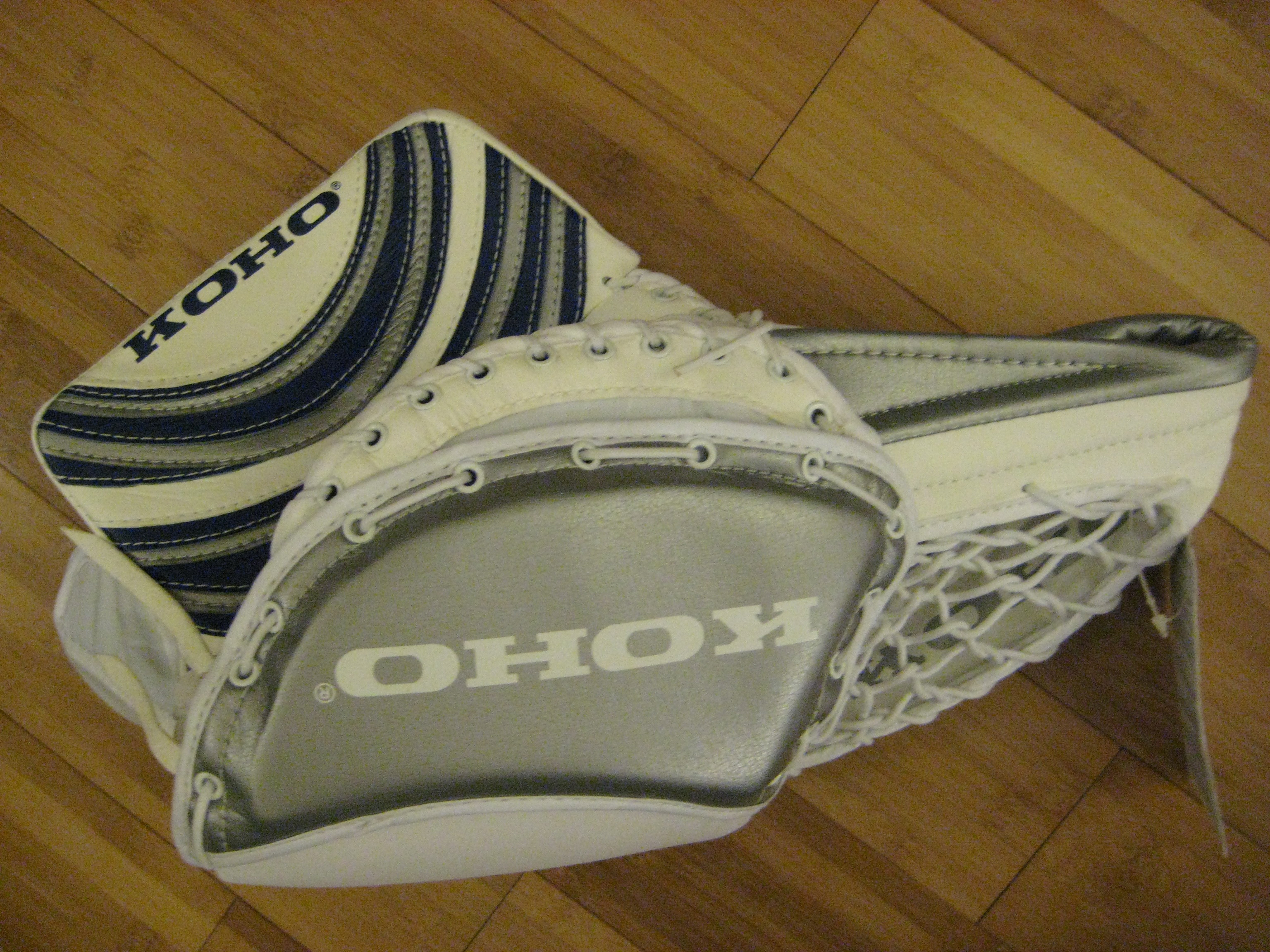 Koho GM700 Senior Pro trapper